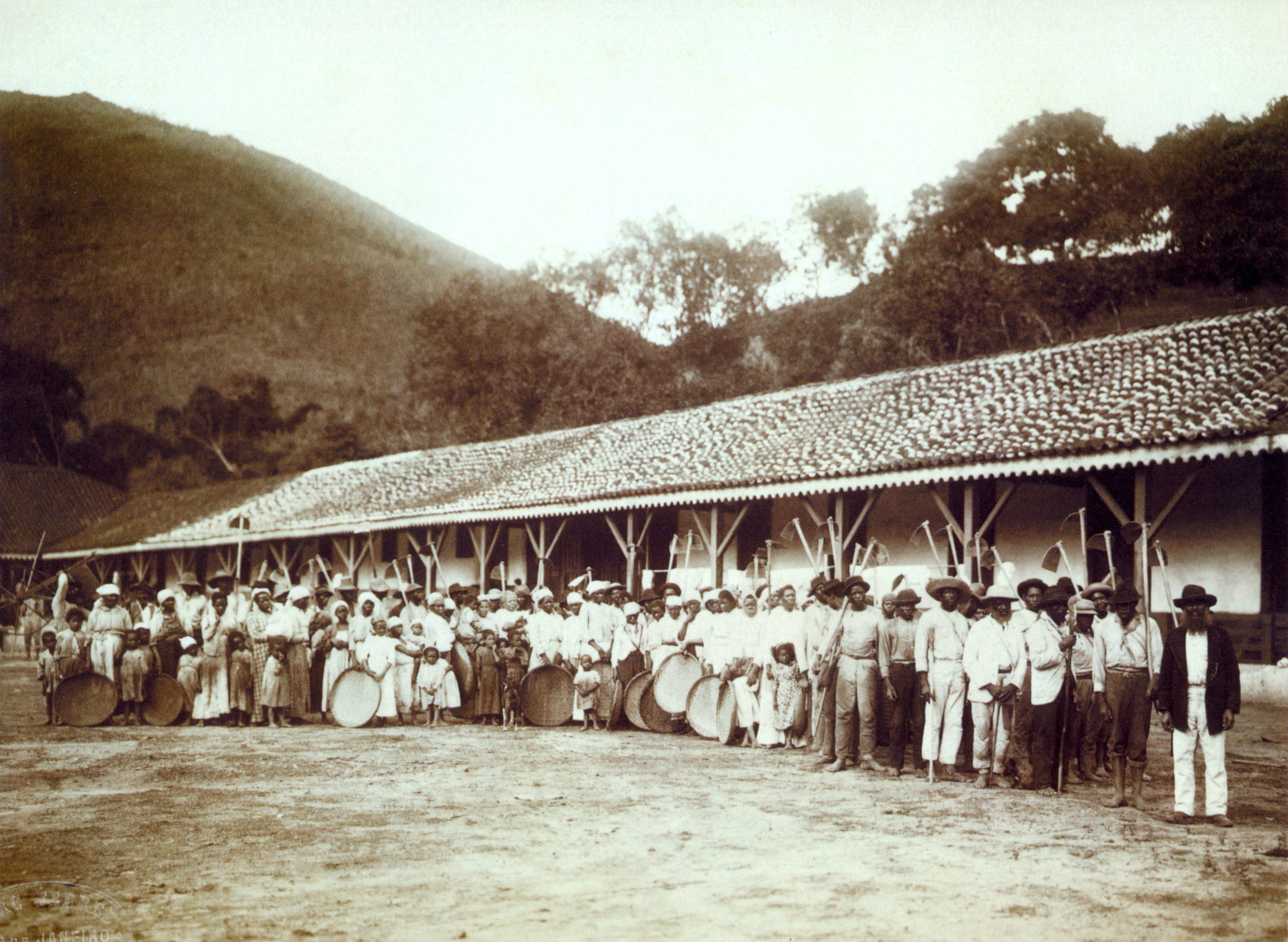 Slaves in a coffe farm in Brazil, c.1885.